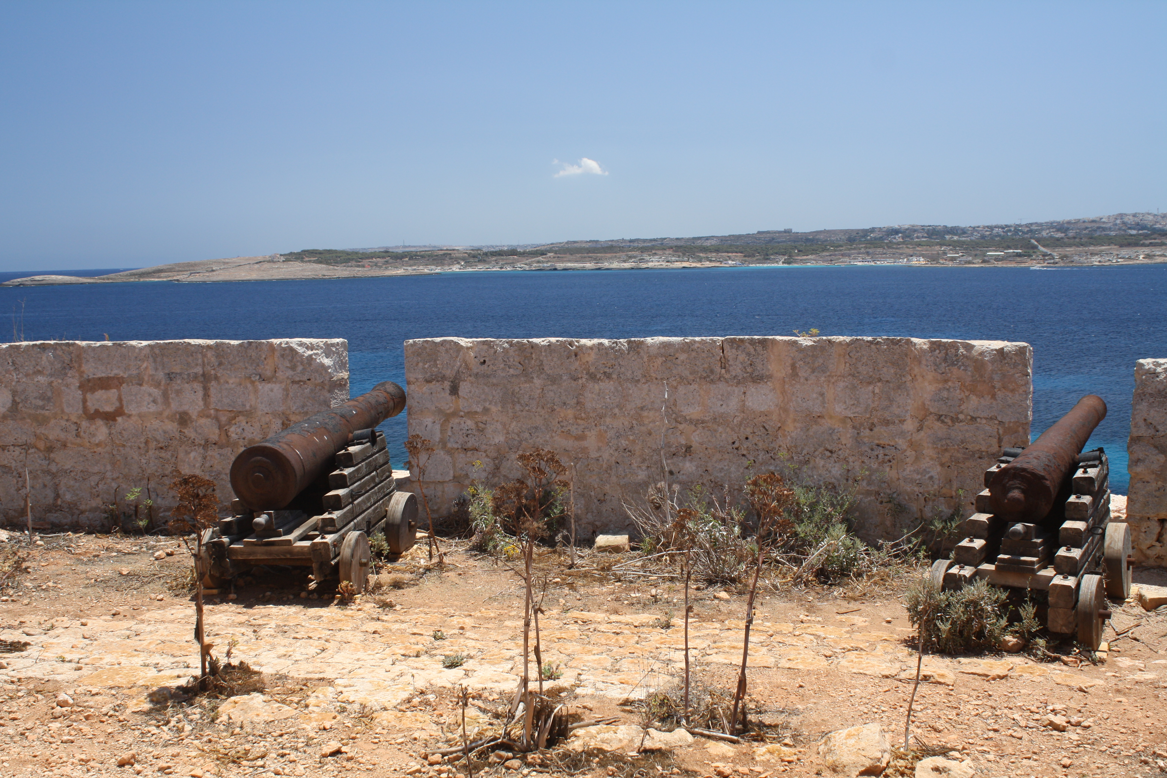 Cannons of Santa Marija Battery, Comino, Malta.